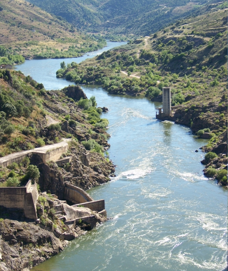 View of Douro river from Bemposta Dam (Bragança, Portugal).